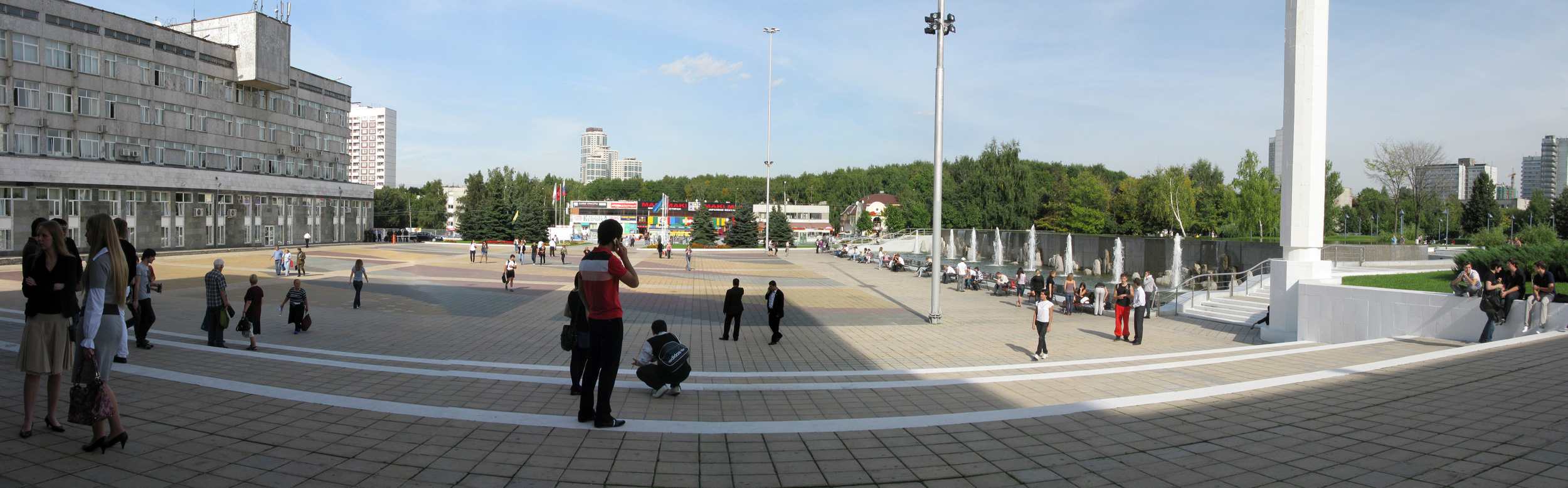 People's Friendship University of Russia